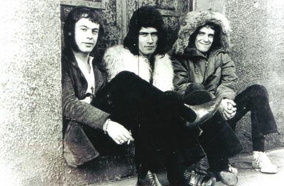 First formation of Pescado Rabioso. From left to right: Osvaldo Frascino, Black Amaya and Luis Alberto Spinetta